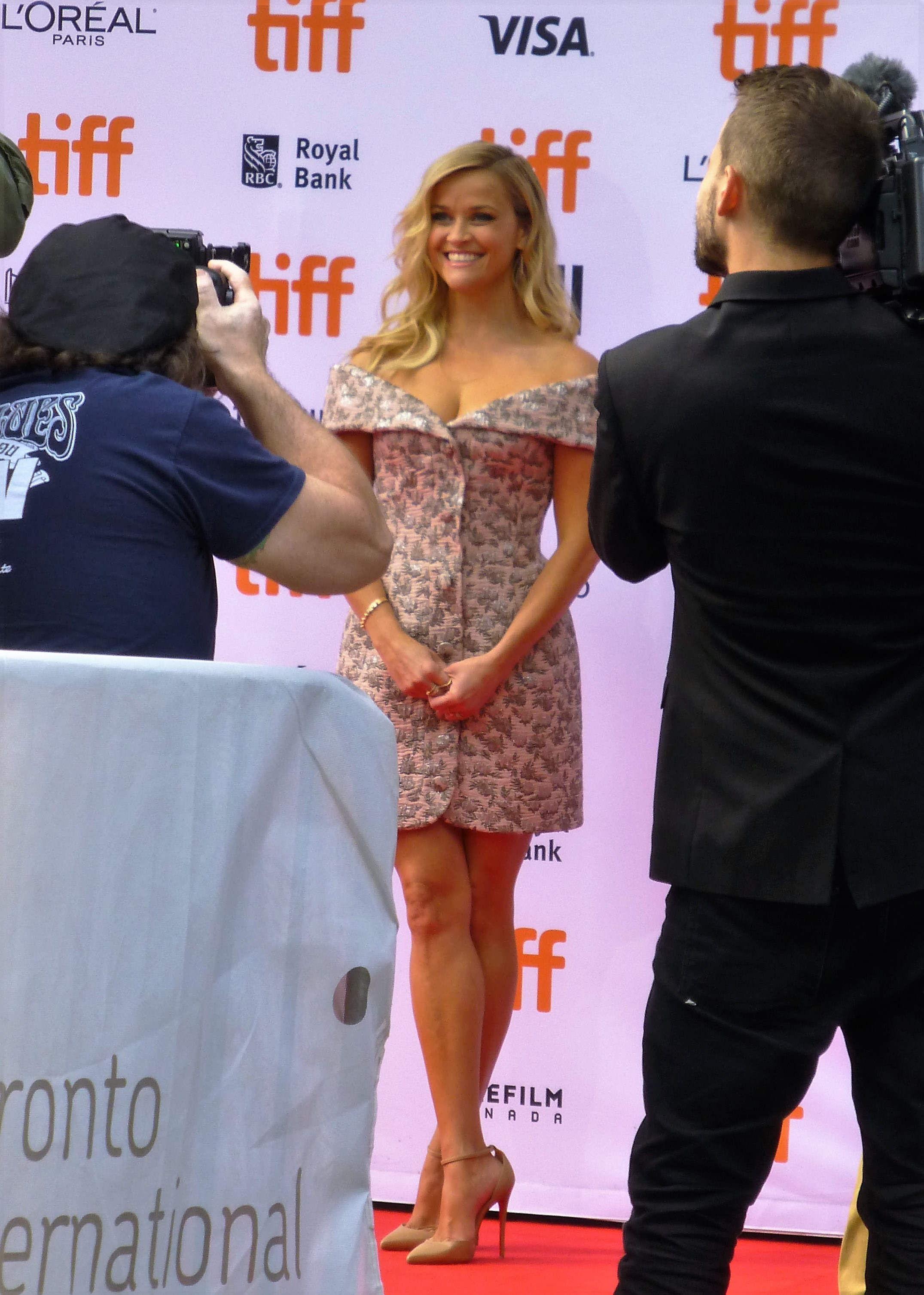 Reese Witherspoon at the premiere of Sing, 2016 Toronto Film Festival